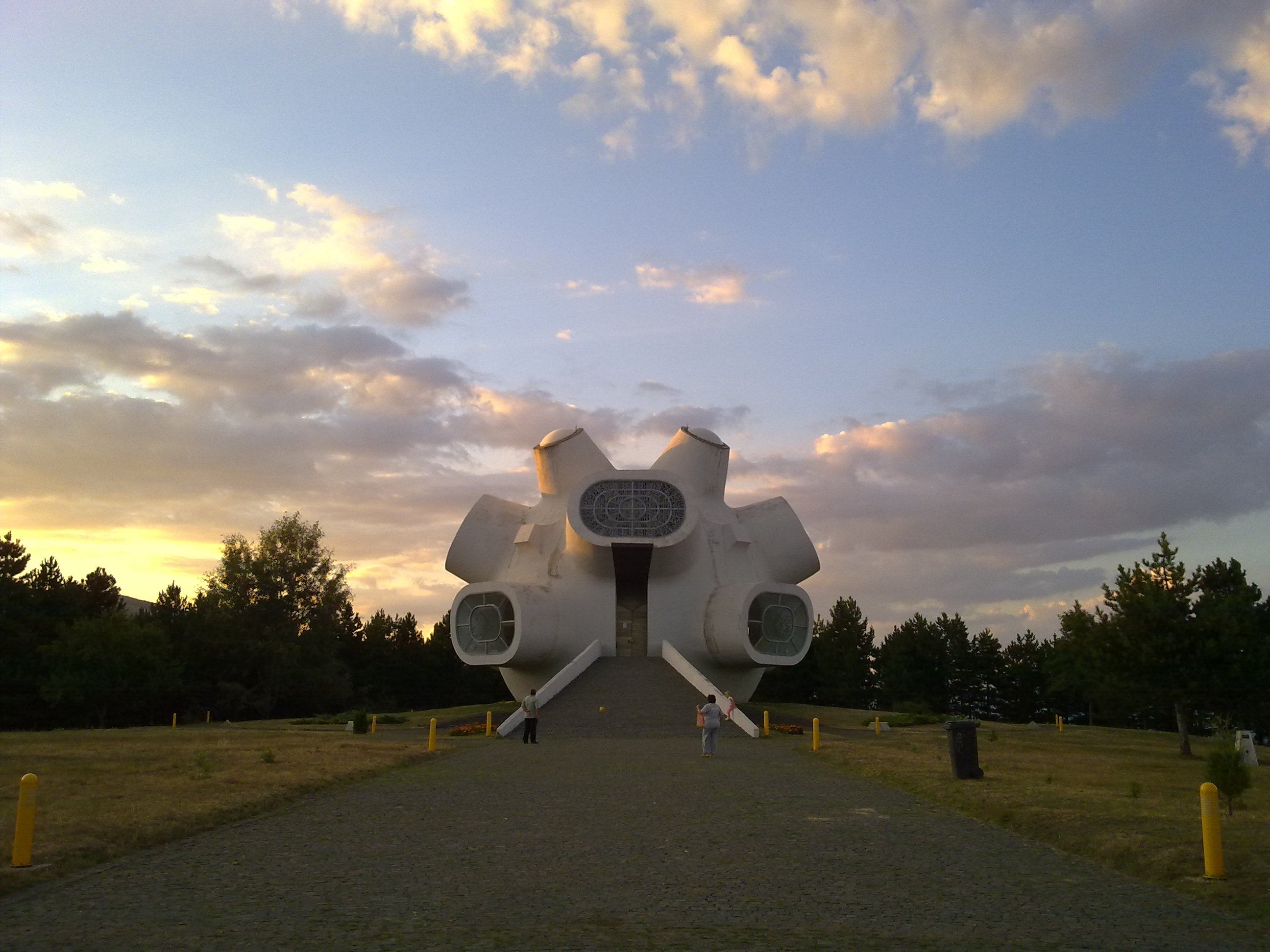 Ilinden Monument or Macedonium